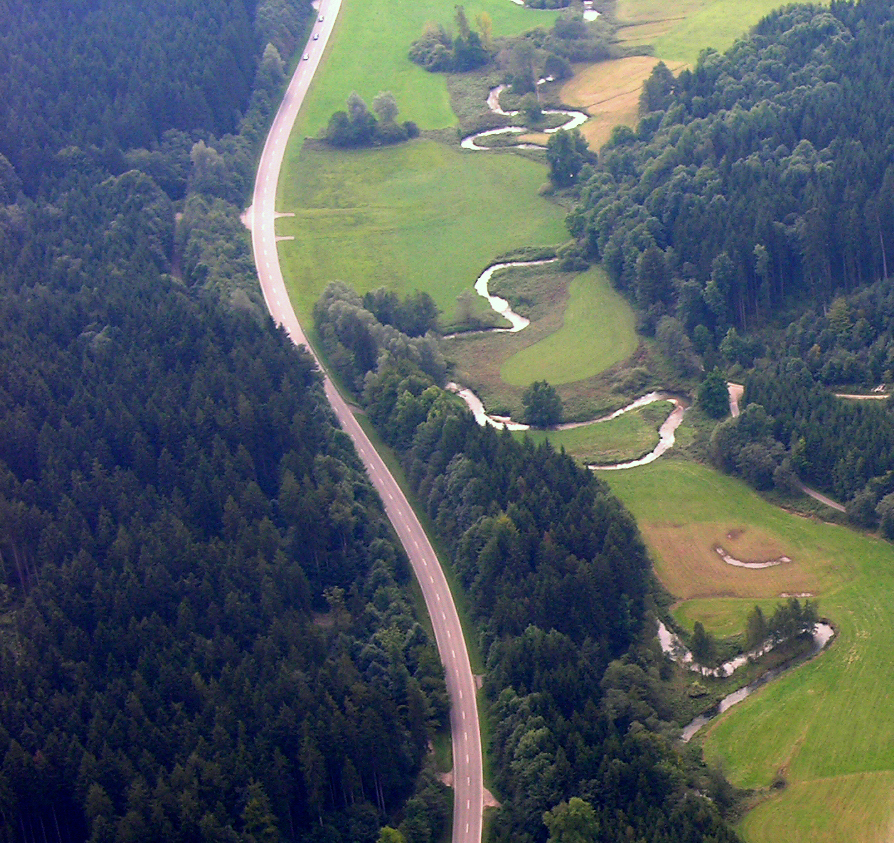 Germany, Bavaria, aerial view South of Ronsberg, "Obergünzburger Straße" and river Günz